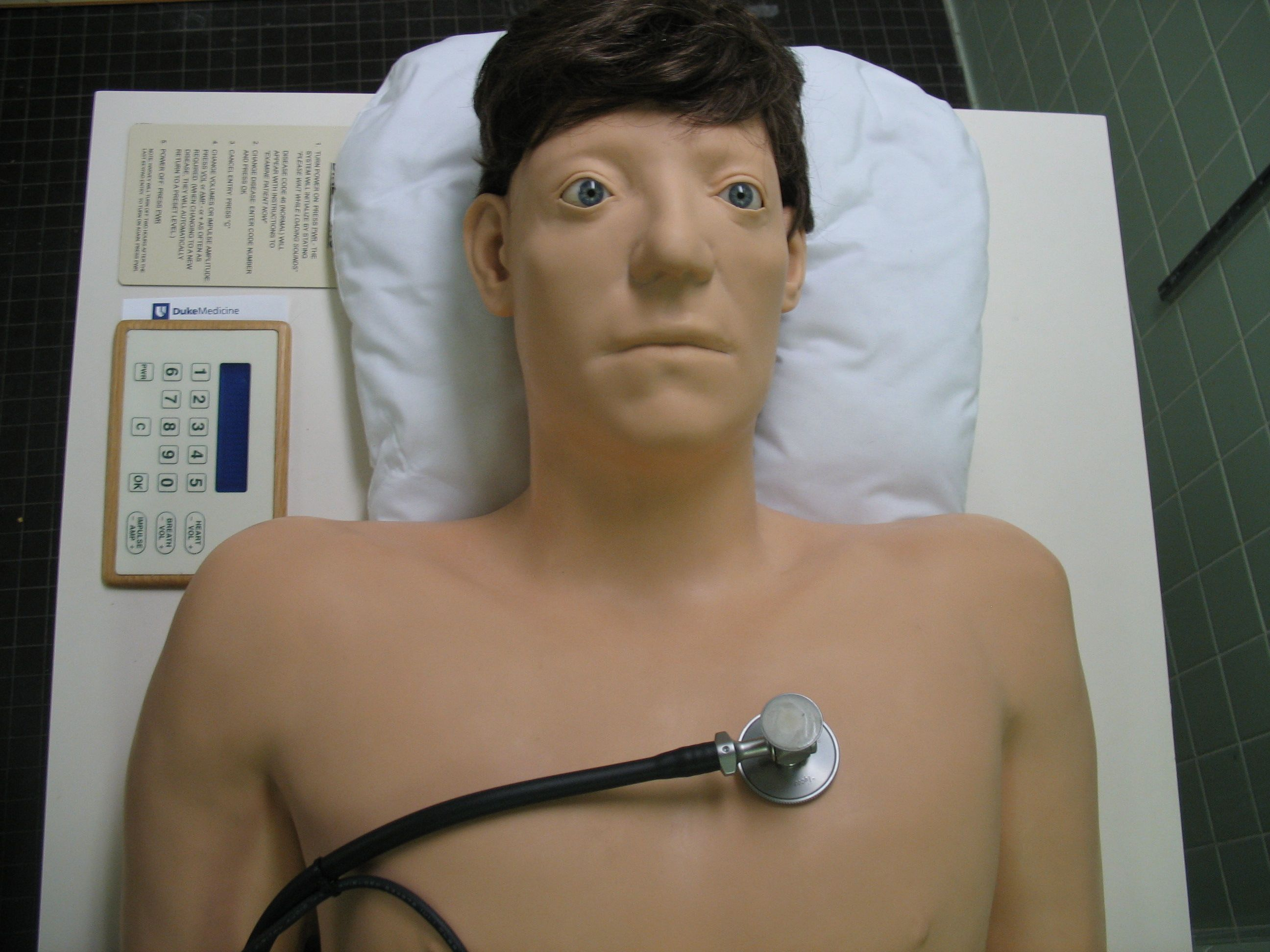 Photo of "Harvey" simulator from the Duke Human Simulation and Patient Safety Center